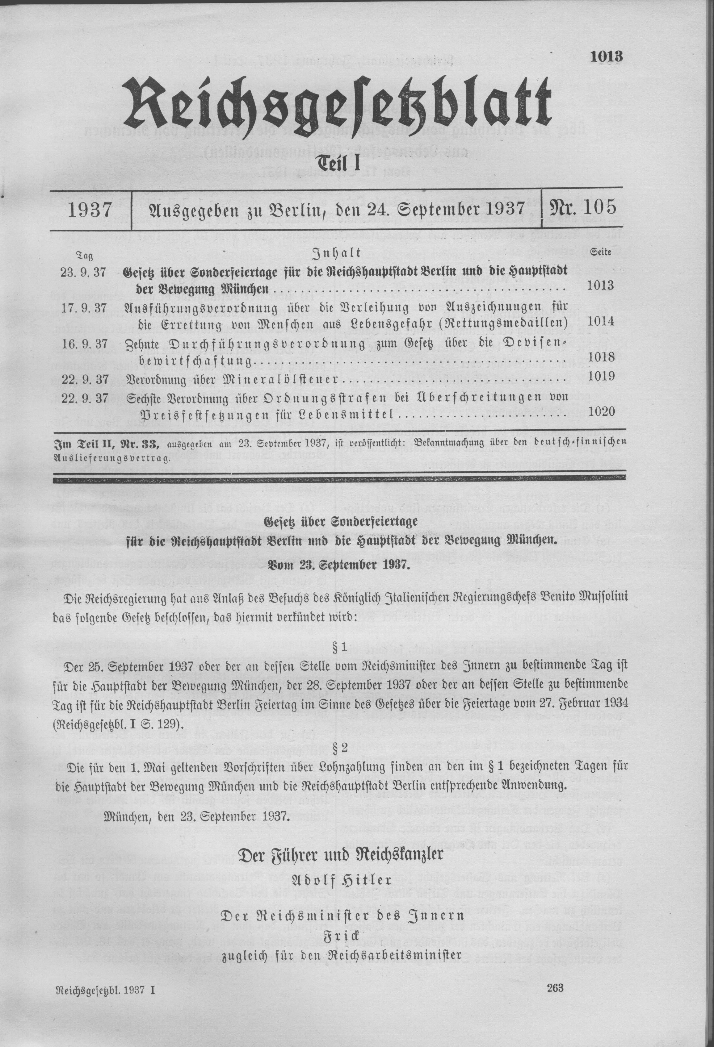 Scan from the Imperial Law Gazette of Germany, 1937, part 1